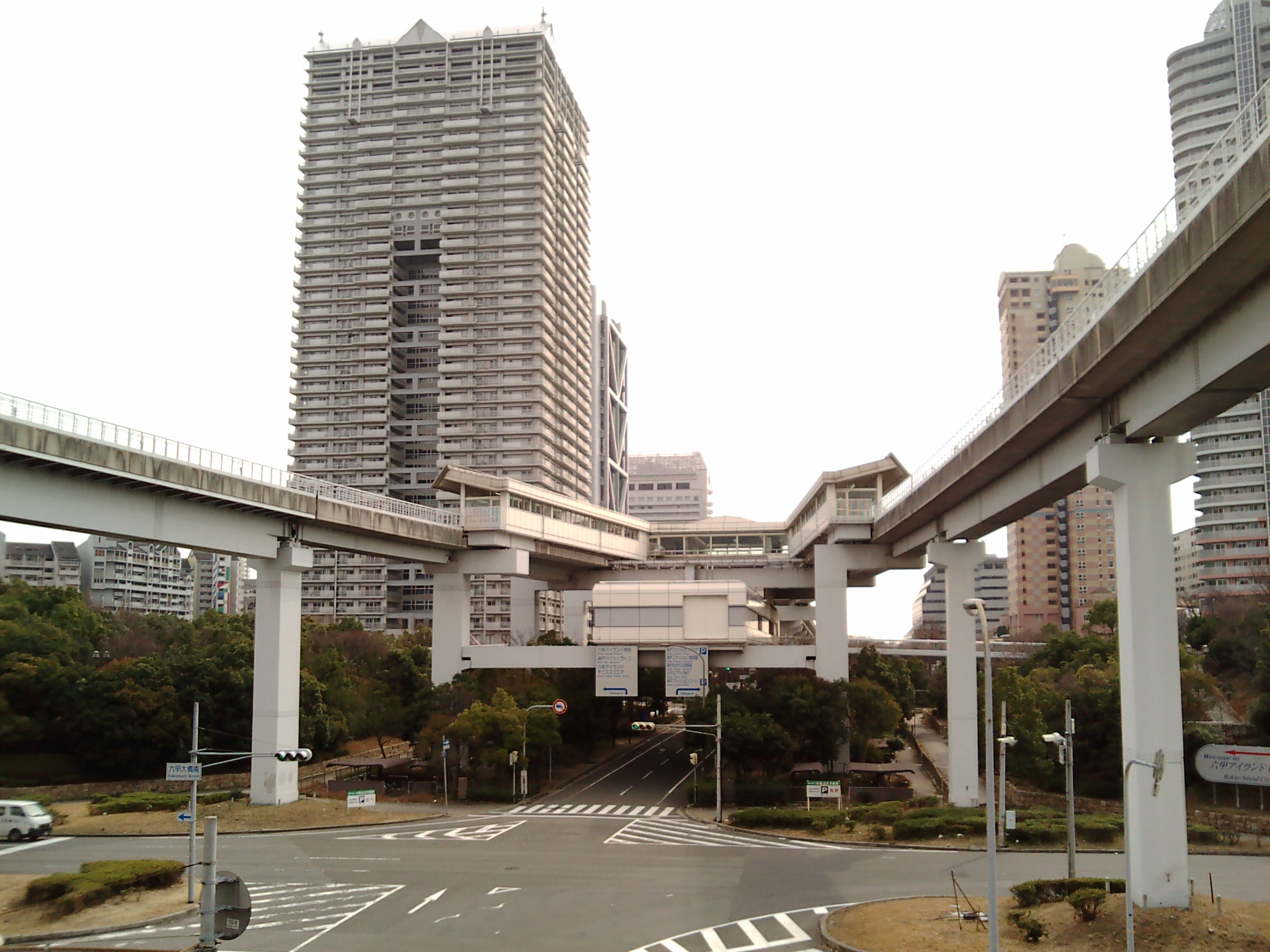 Island Kitaguchi Station viewed from the north